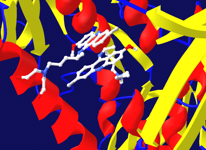 Two molecules of quinicrine mustard bound to the active site of trypanothione reductase. Saravanamuthu A, Vickers TJ, Bond CS, Peterson MR, Hunter WN, Fairlamb AH (July 2004). "Two interacting binding sites for quinacrine derivatives in the active site of trypanothione reductase: a template for drug design". J. Biol. Chem. 279 (28): 29493–500. PMID 15102853.